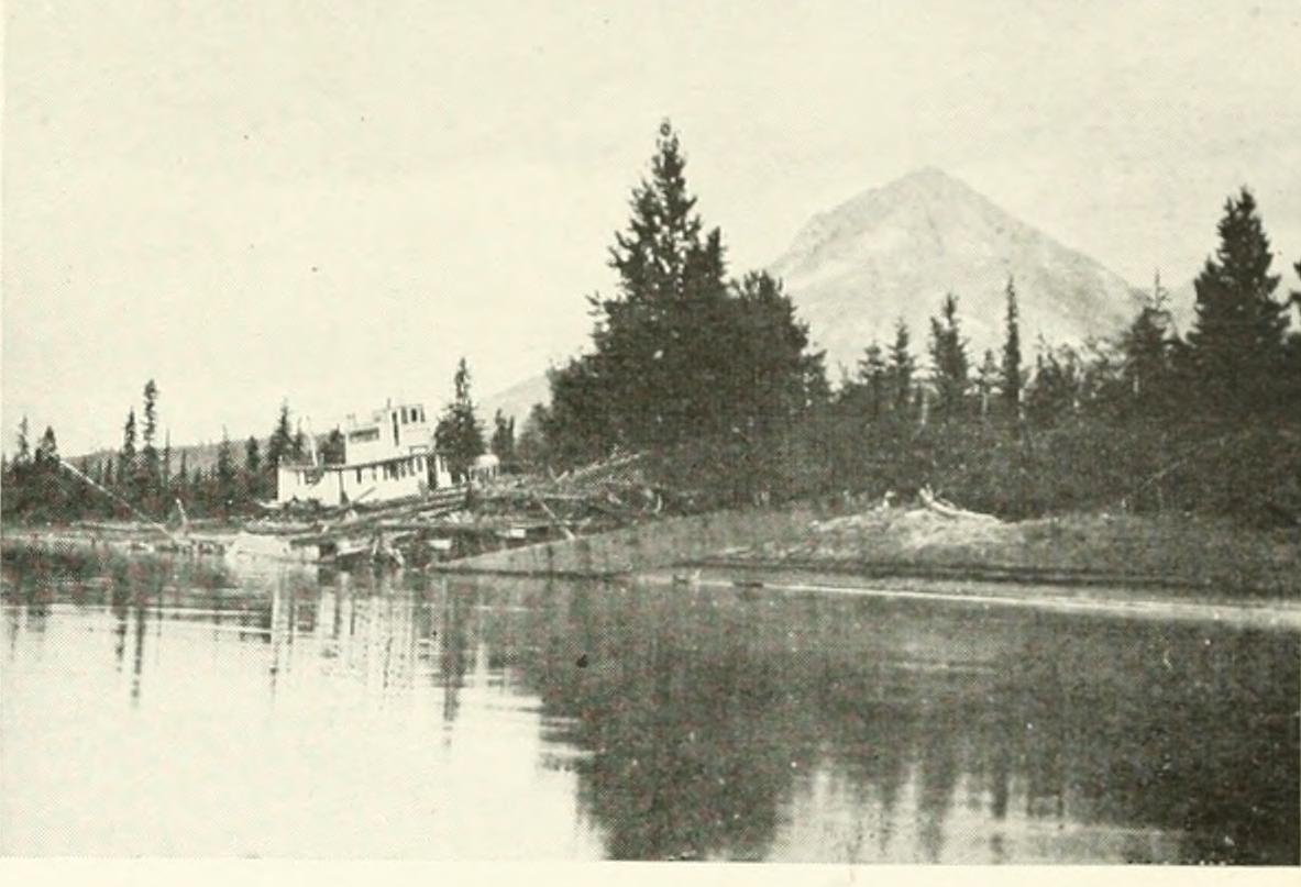 Abandoned sternwheel steamboat at Golden, BC, ca 1920. This is probably the Selkirk.